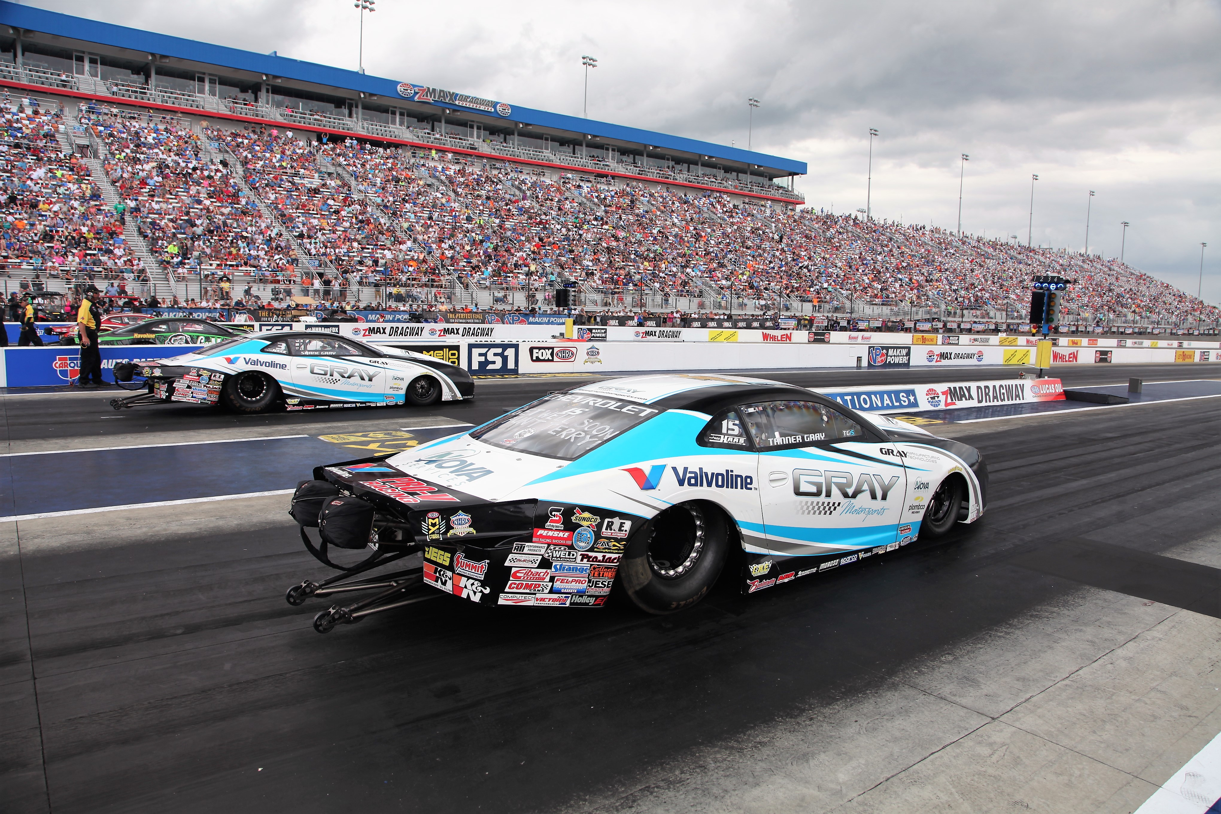 Rookie Tanner Gray, and Father Shane Gray during eliminations at the NHRA Four-Wide Nationals